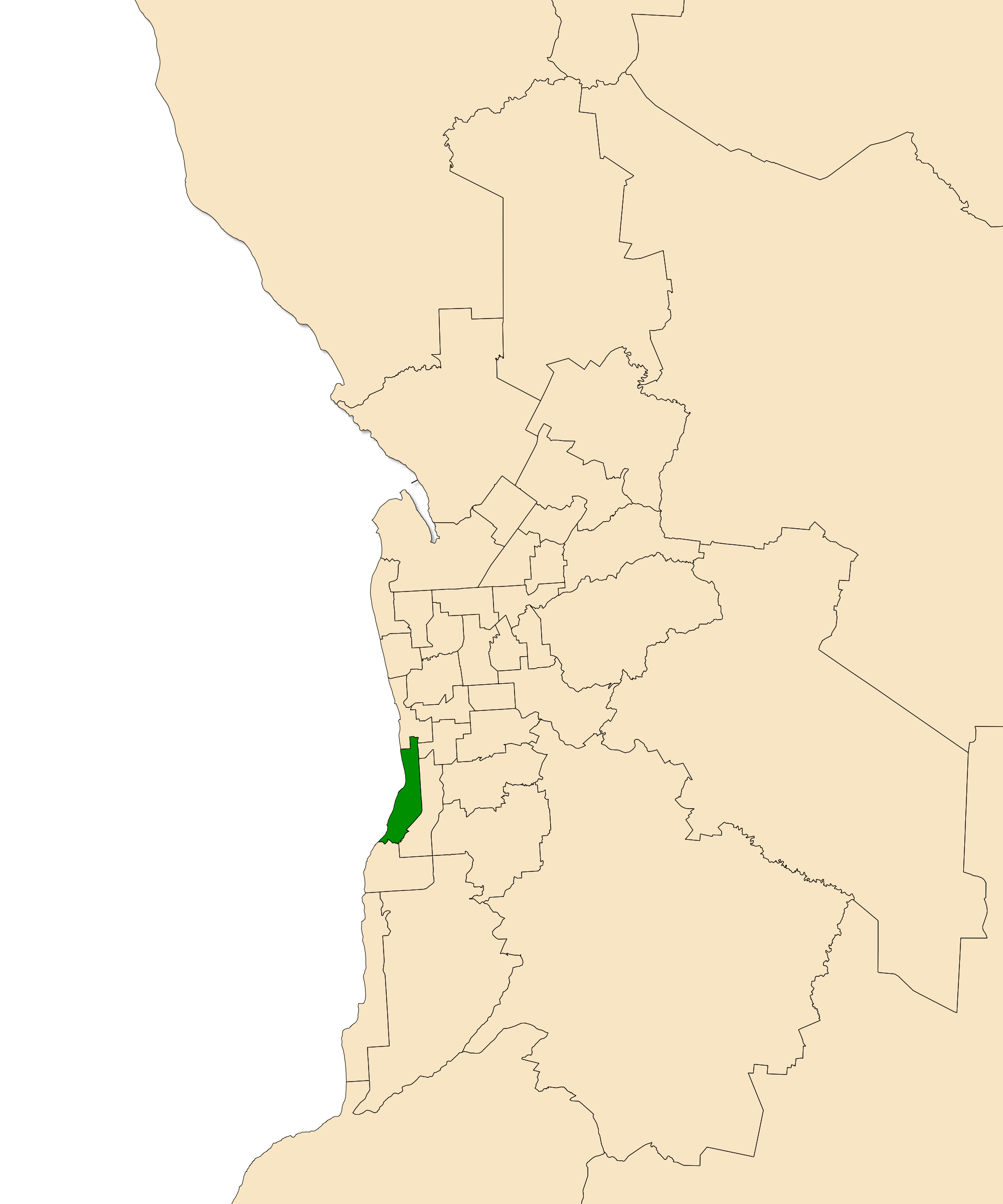 The South Australian electoral district of Bright, shown dark green in the Greater Adelaide area. Map derived from data at South Australia Department of Planning, Transport and Infrastructure, licensed under a Creative Commons Attribution 3.0 Australia Licence.